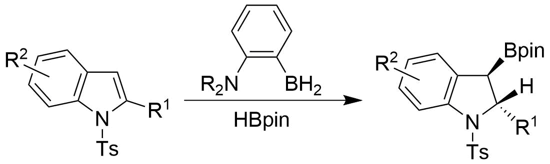 Deromatisation of N-tosyl indole by HBpin